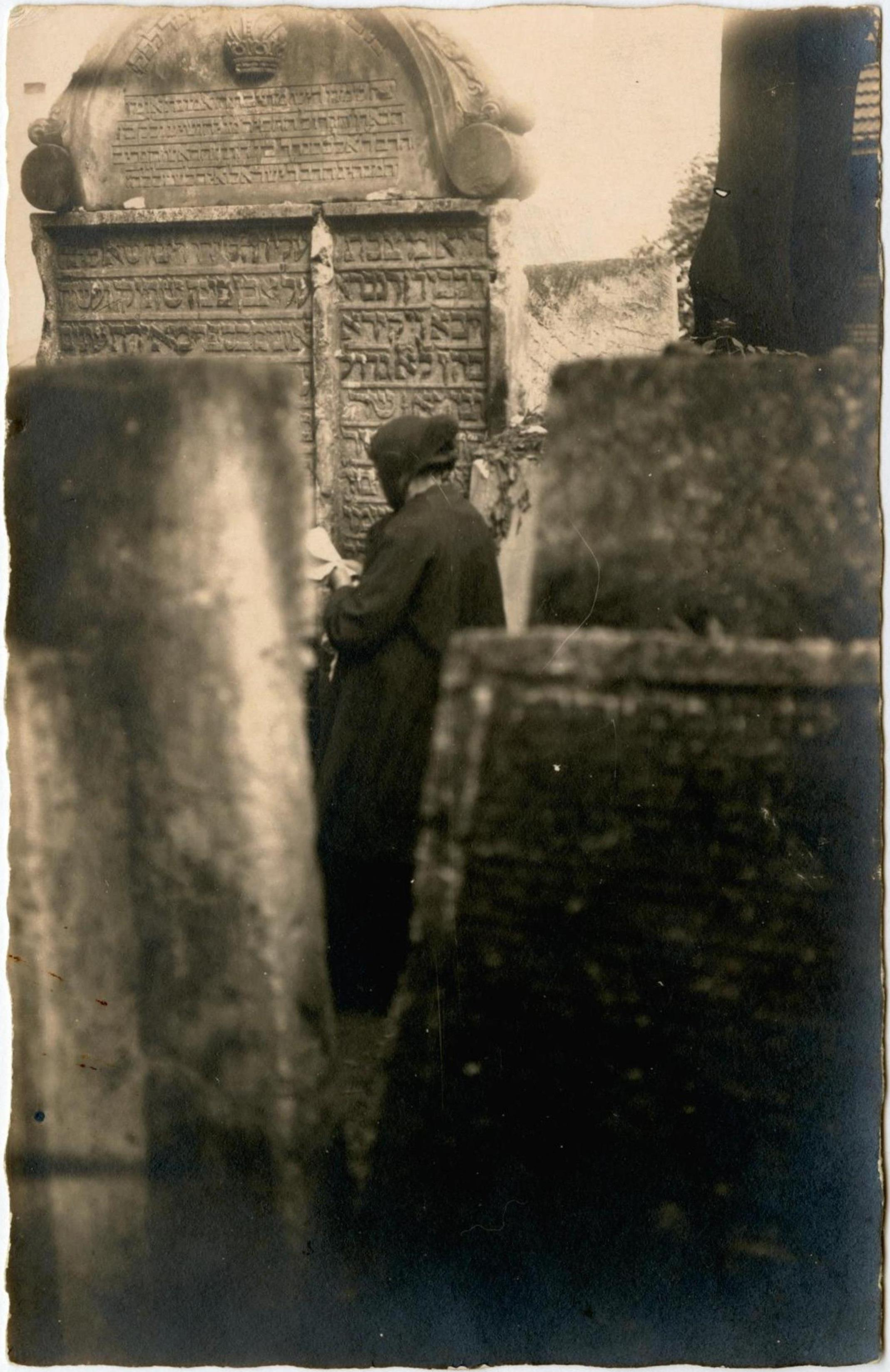 Woman at the tombstone of rebbi Yehoshu'a Falk (1555 - 1614) on the Old Jewish cemetry in Lwow (Lemberg, Lviv).